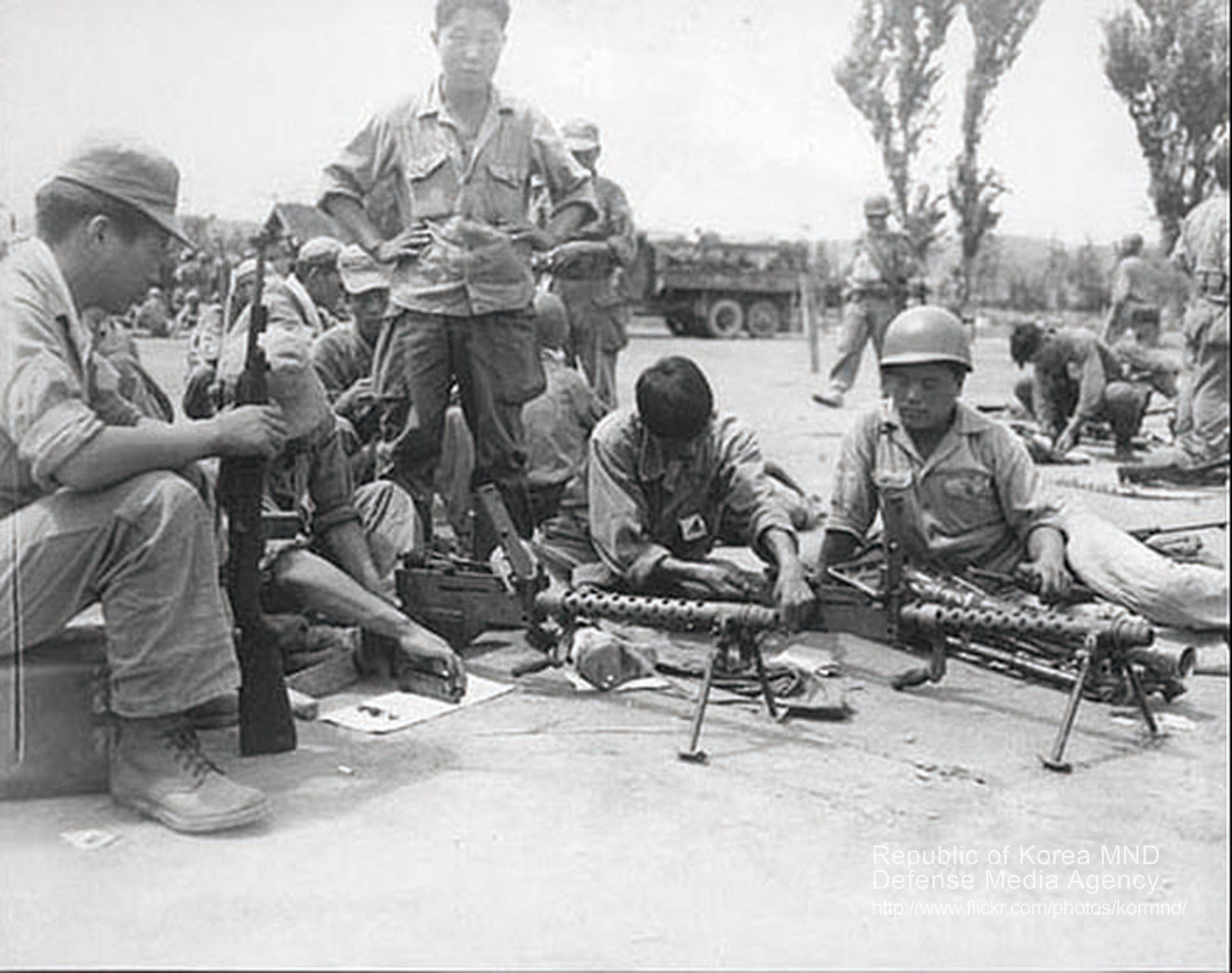 2010 국방화보 Rep. of Korea, Defense Photo Magazine 휴식 시간에 LMG(기관총) 병기 손질을 하고 있다. A soldier fixing his LMG(machine gun) during break.